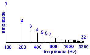 Harmonic power spectrum